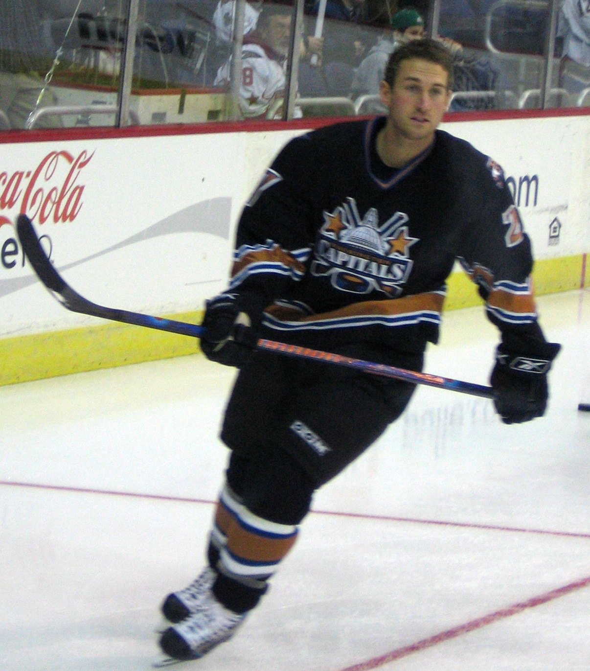 Ben Clymer Taken before the Capitals' game against the Carolina Hurricanes on January 27, 2007. This file has been extracted from another file: Ben Clymer uncropped.jpg